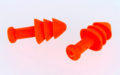 Preshaped ear-plugs